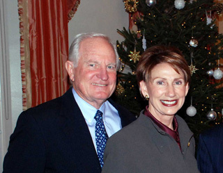 Craig Barrett, U.S. businessman and CEO of Intel, with his wife Barbara Barrett, U.S. Ambassador to Finland, at the U.S. Embassy in Helsinki. Christmas 2008.